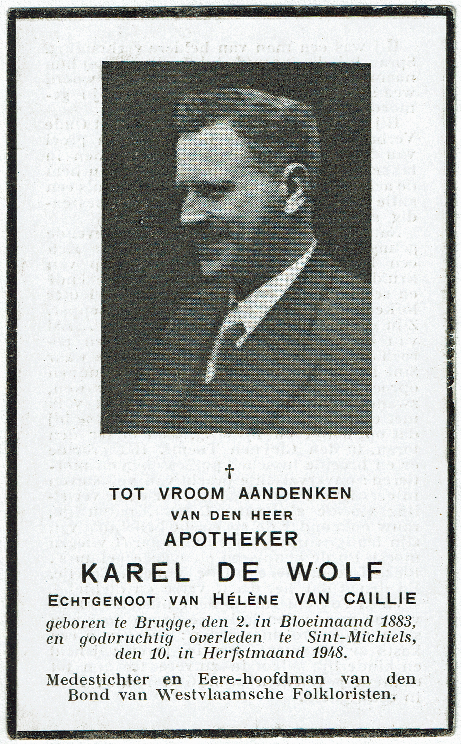 In memoriam card of the Belgian folklorist Karel De Wolf (1883-1948)